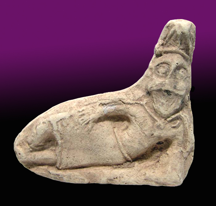 Parthian, 3 rd – 2 nd Century BC. A molded terracotta votive plaque depicting a reclining bearded king. Parthian, 3 rd – 2 nd Century BC. A molded terracotta votive plaque depicting a reclining bearded king wearing a tall hat and a short skirt.